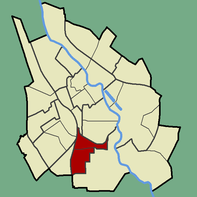 Locator map of Ropka, Tartu, Estonia.